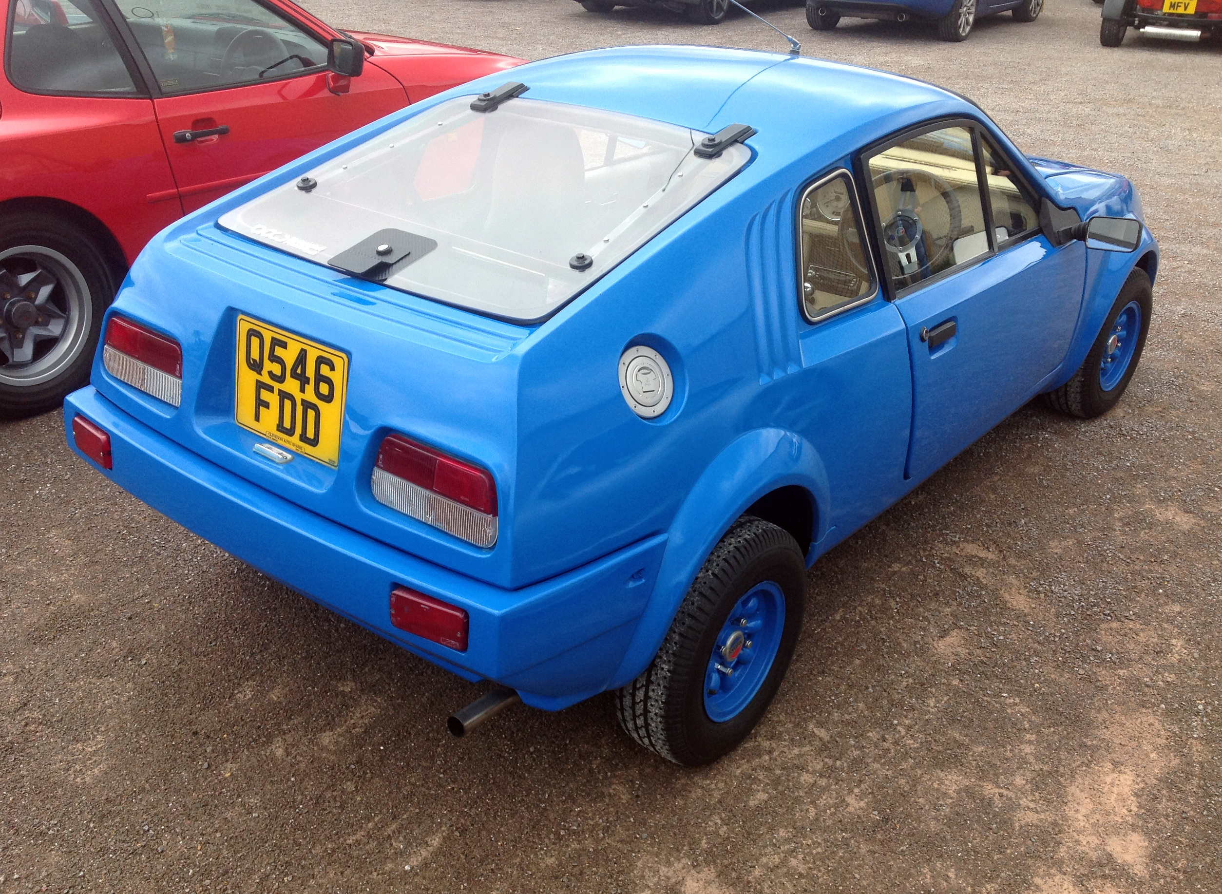 Midas Bronze, Mini-based. First registered 1988, most likely an older kit. At the Rare Breeds Show, Haynes Motor Museum, Sparkford, Somerset